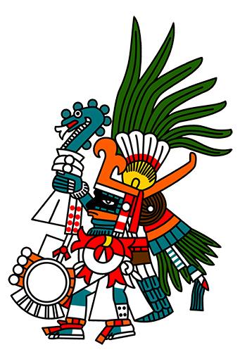 Huitzilopochtli